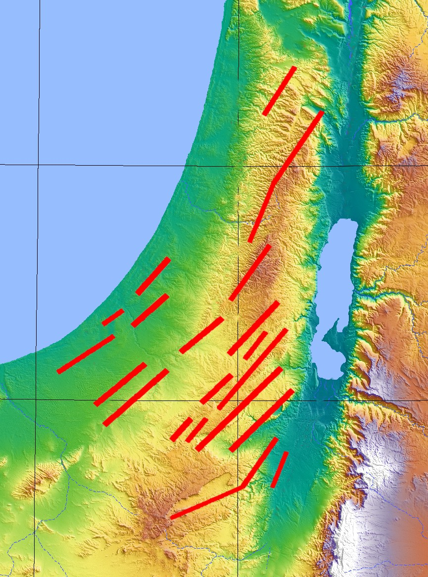 Topographic map of Israel. Created with GMT from SRTM data.